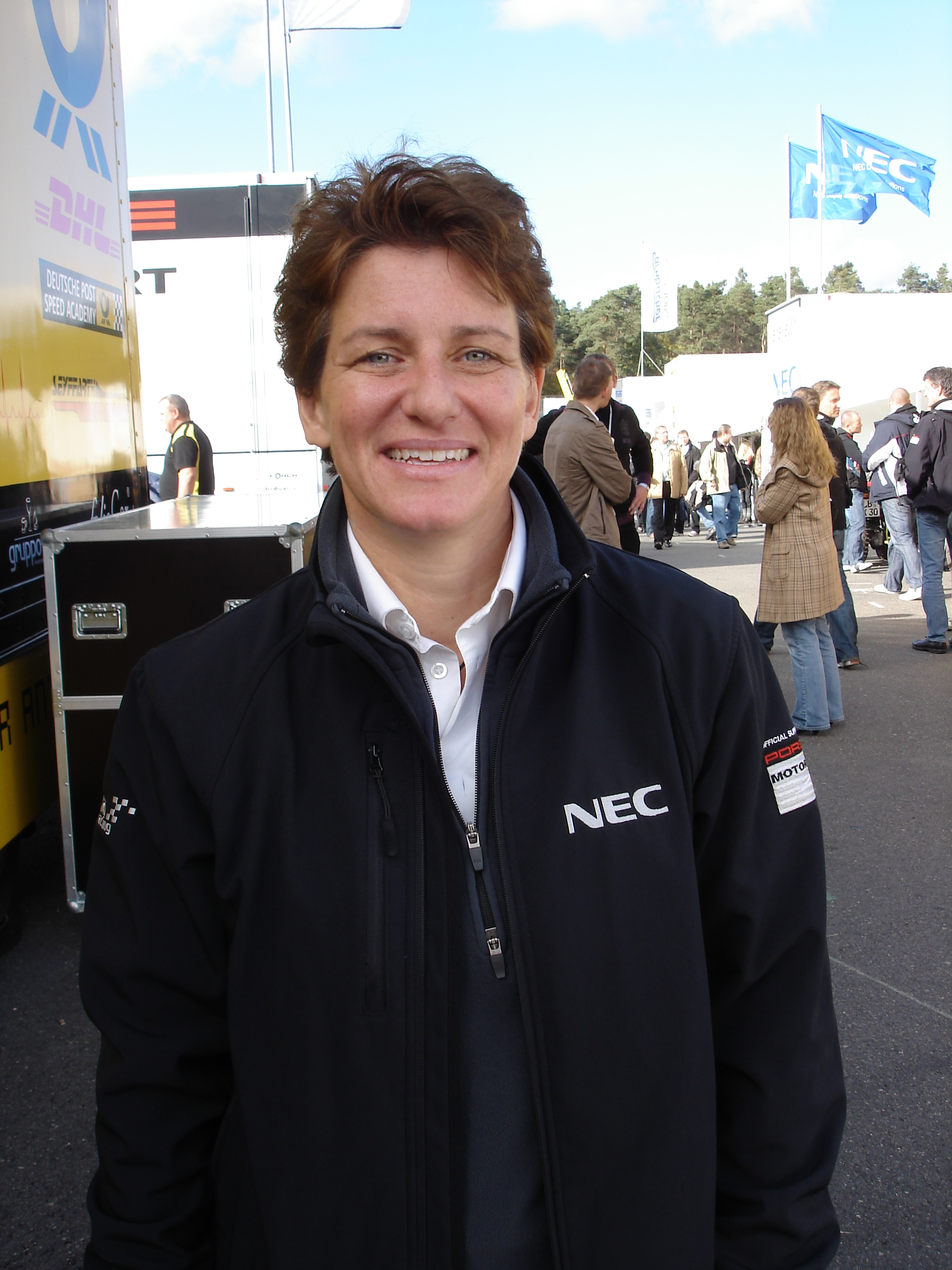 Ellen Lohr: the photo was taken during 2009's second DTM race weekend at Hockenheim